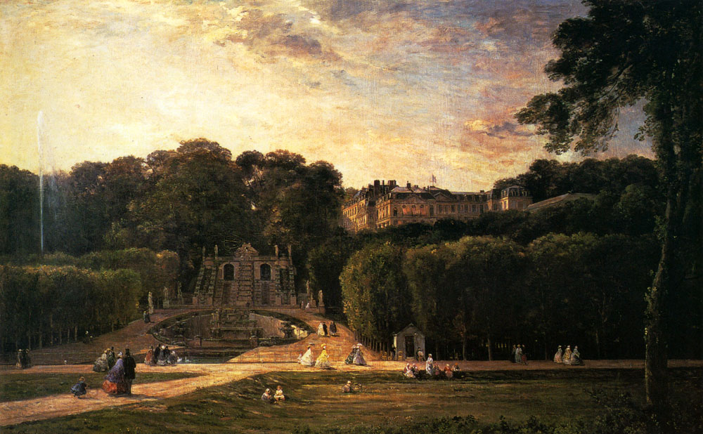 The Park At St. Cloud